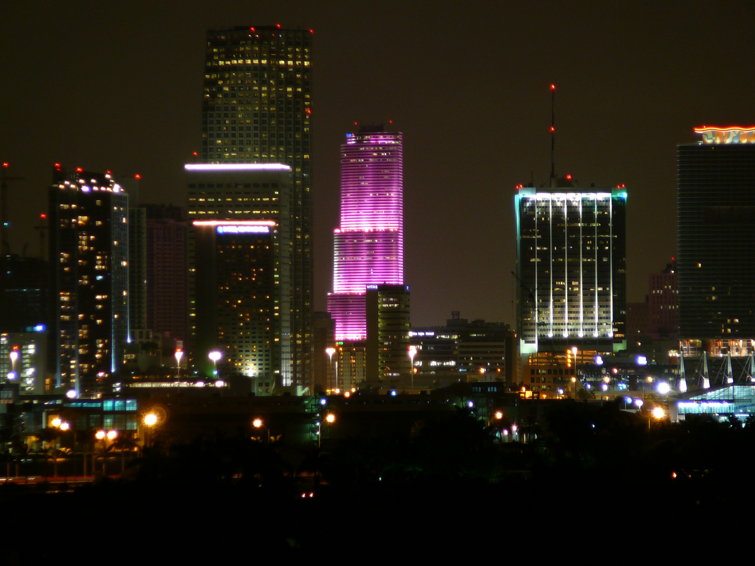 Partial Miami skyline at night featuring the Bank of America Tower lit pink.